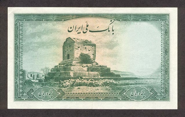 back of paper money of iran ; 50 rial, published in 1944; picture of mausoleum of cyrus the great , pasargad